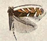 Phyllonorycter robiniella